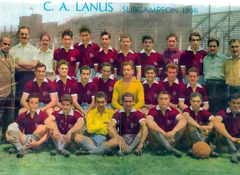 The association football team of Argentine Club Atlético Lanús, runner-up in 1956 Primera División championship.